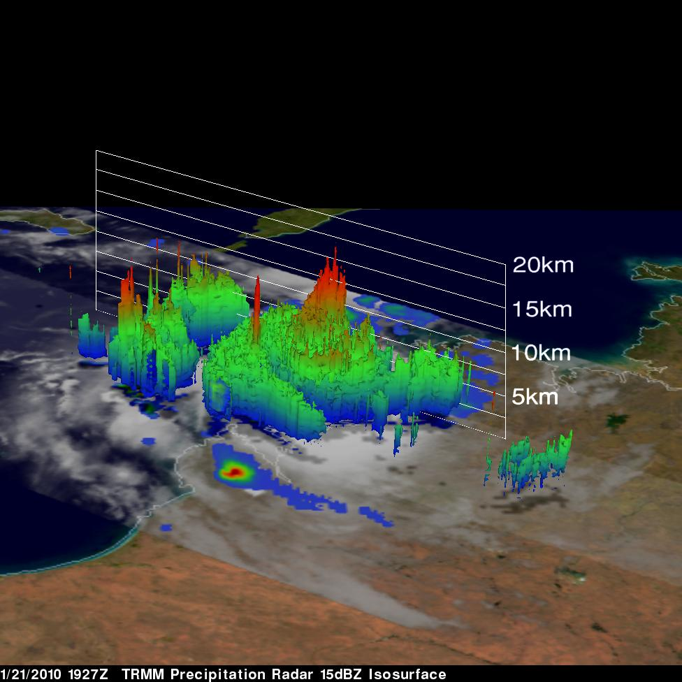 Image showing TRMM's Precipitation Radar (PR) and the TRMM Microwave Imager (TMI) instrument resolving the intensifying thunderstorms near a tropical cyclone Magda’s eyewall off the northwest coast of Australia on January 21st, 2010.